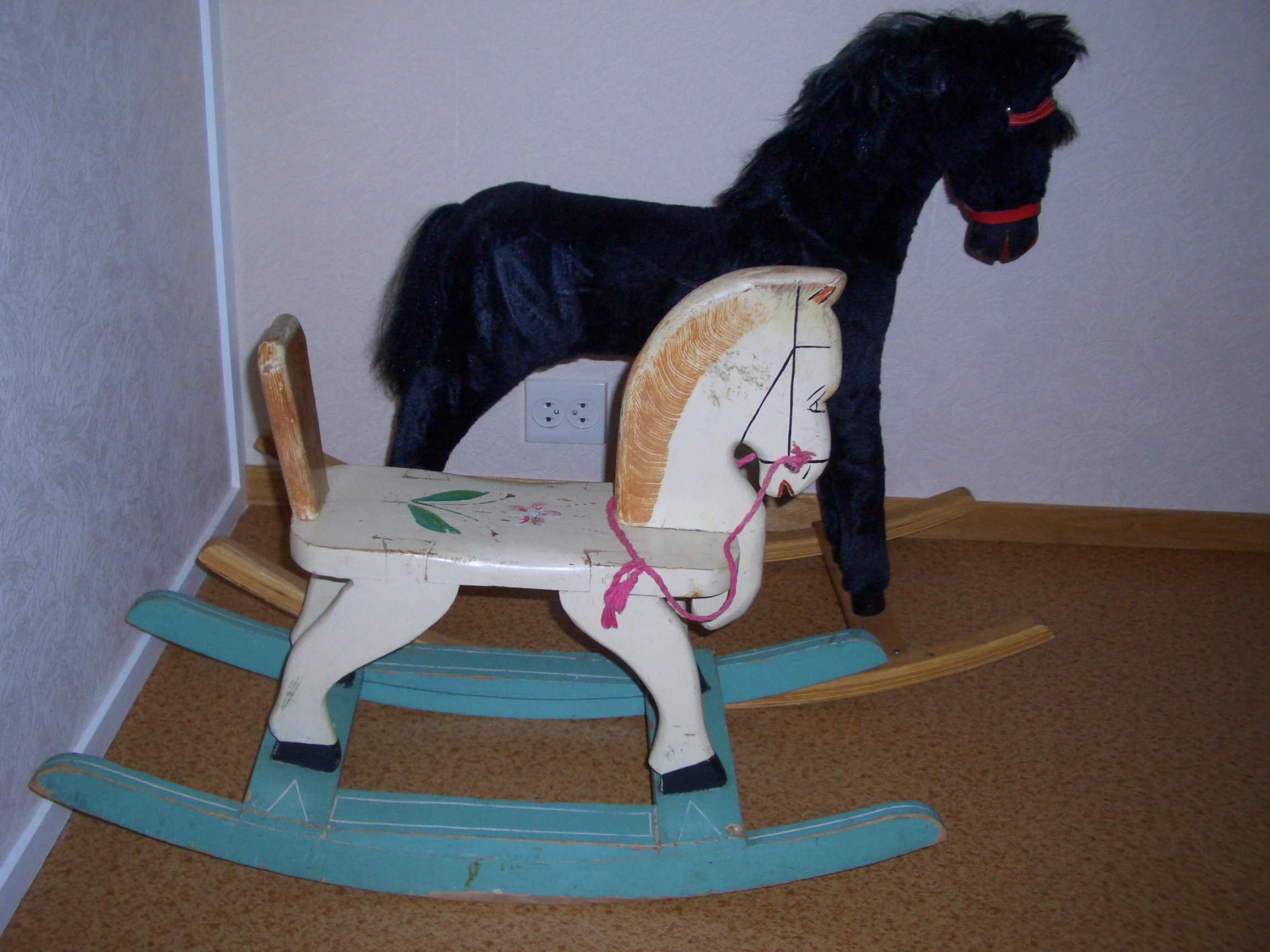 A photo of a coupe of rocking horses. There was a request for free licenced pictures of rocking horses on the English Wikipedia so I snapped a couple.